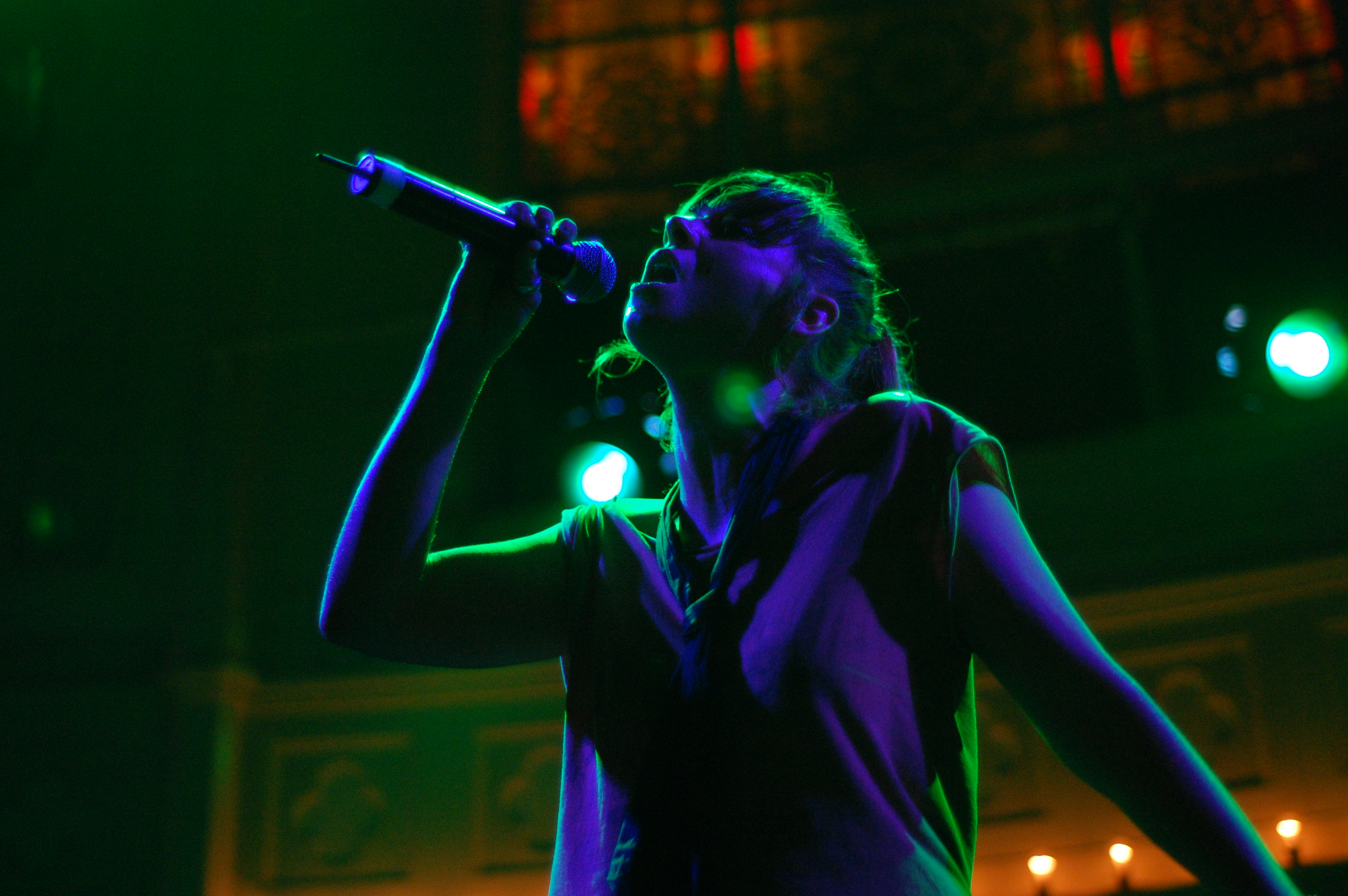 This is a picture of Chan Marshall (Cat Power)